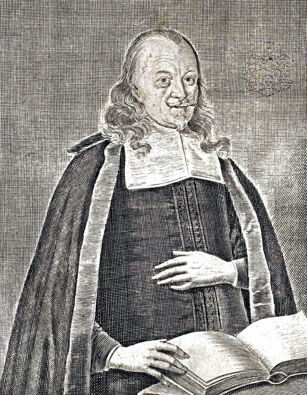 Iohannes Musaeus (1613-1681) German Protestant theologian